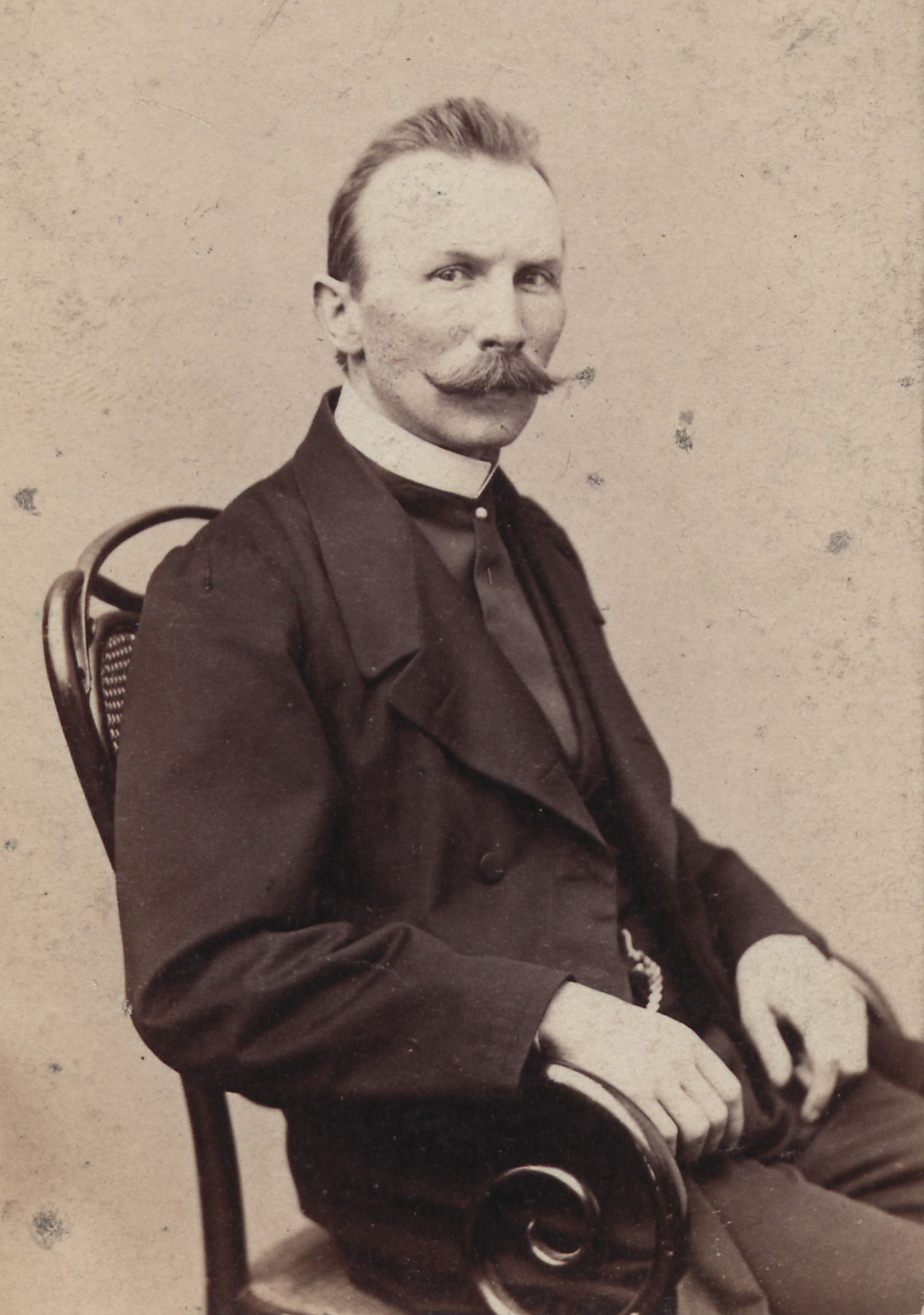 Maurycy Karasowski (1823—1892). Photo by Maxymiljan Fajans.